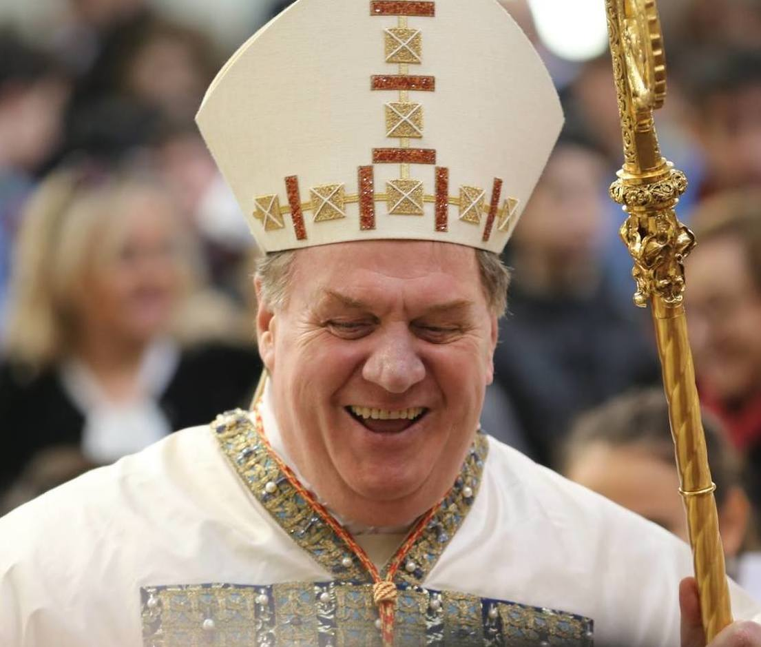 this is cardinal tobin of Newark